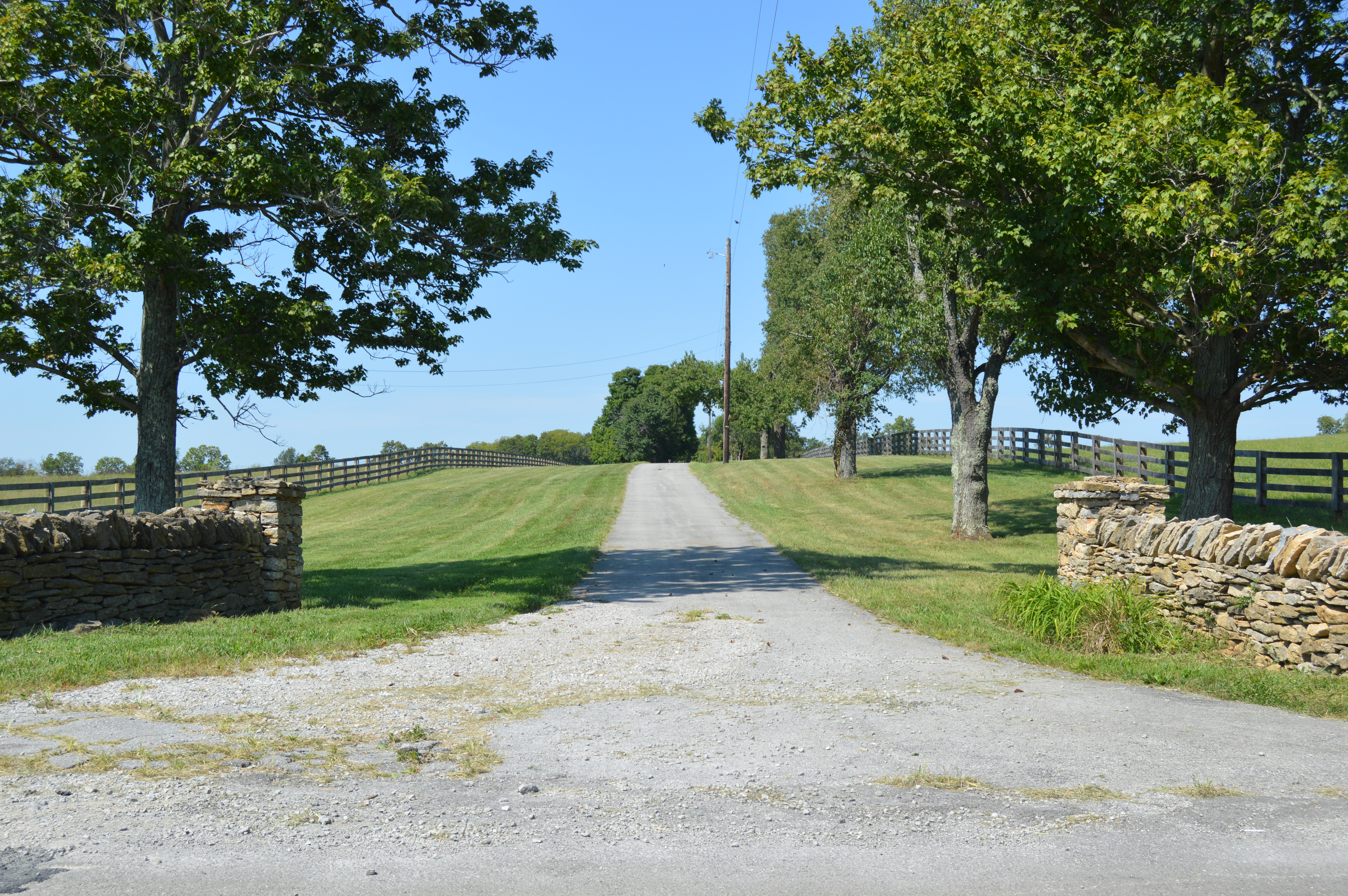 Driveway to the Snow Hill estate, located at 4100 Little Rock-Jackstown Road north of Little Rock in Bourbon County, Kentucky, United States. The estate is listed on the National Register of Historic Places.